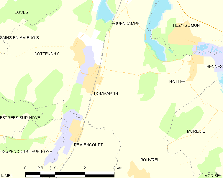 Map of French municipality Dommartin